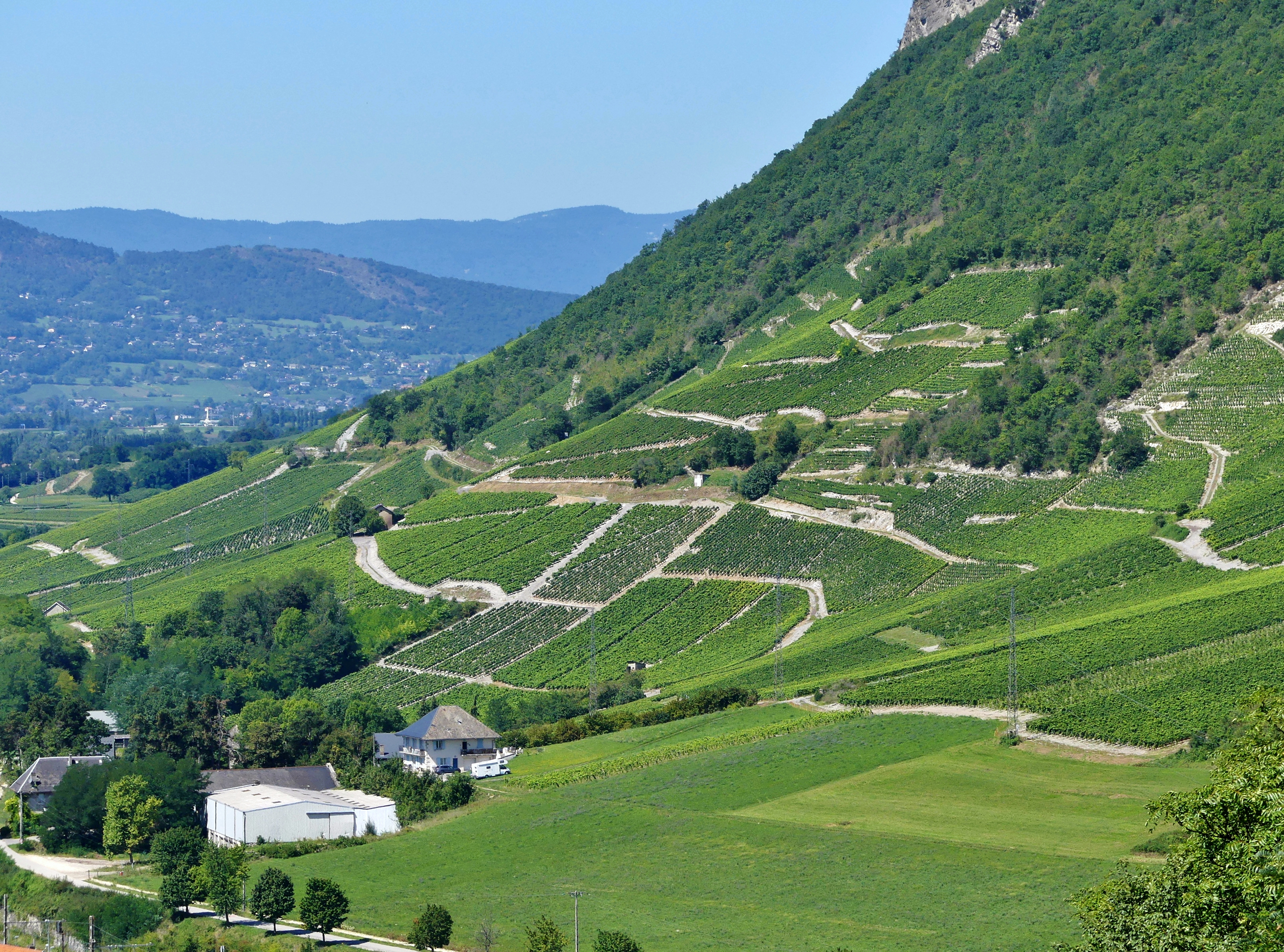 Sight of Montmélian vineyards, from the Rocher hill at the center of the town, in Savoie, France.